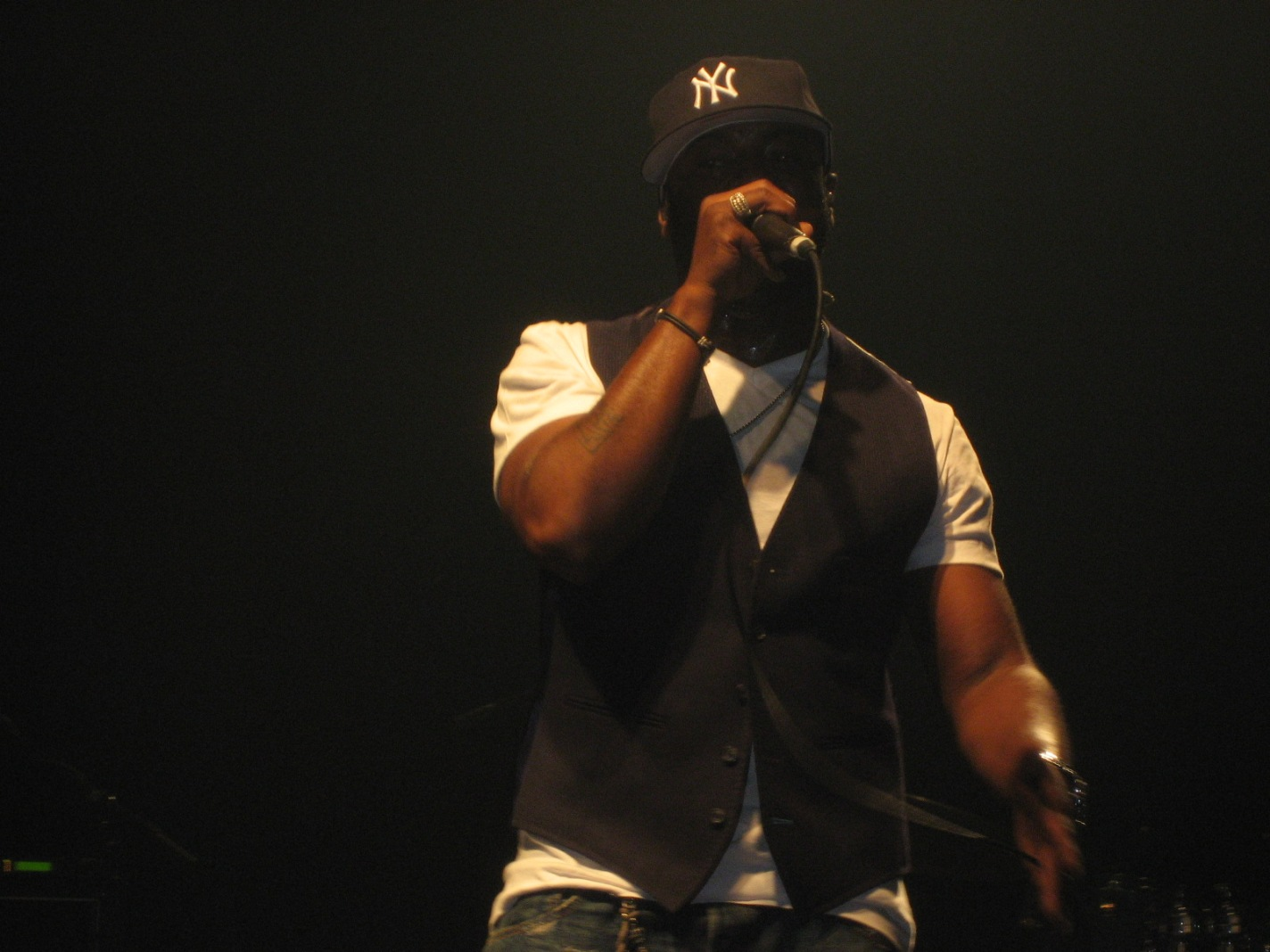 Author - Ryan Harris